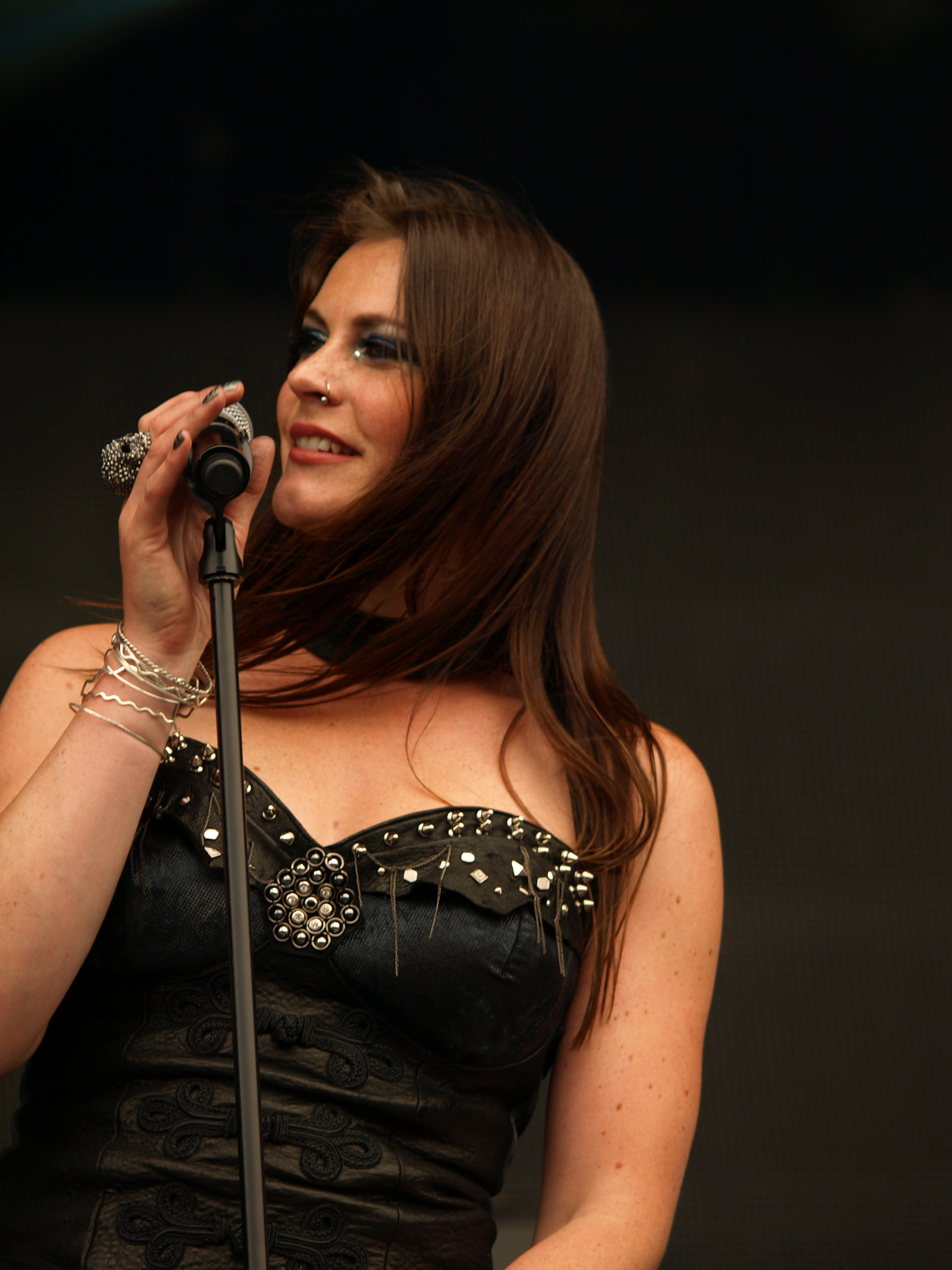 Finnish band Nightwish at Tuska Open Air 2013